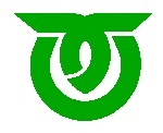 Kawakami Nagano chapter